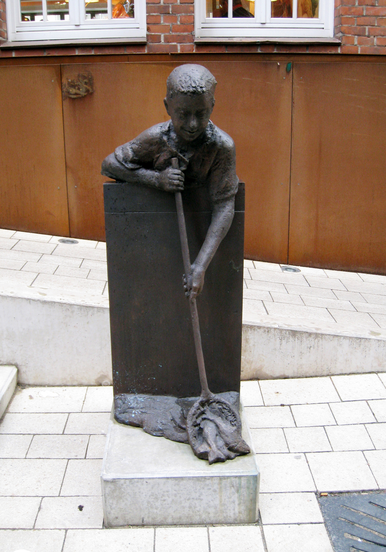 Fietje Balge, bronze sculpture by Bernd Altenstein, installed 2007 in the street Hinter dem Schütting in Bremen by assignment of the banking house Carl F. Plump & Co.